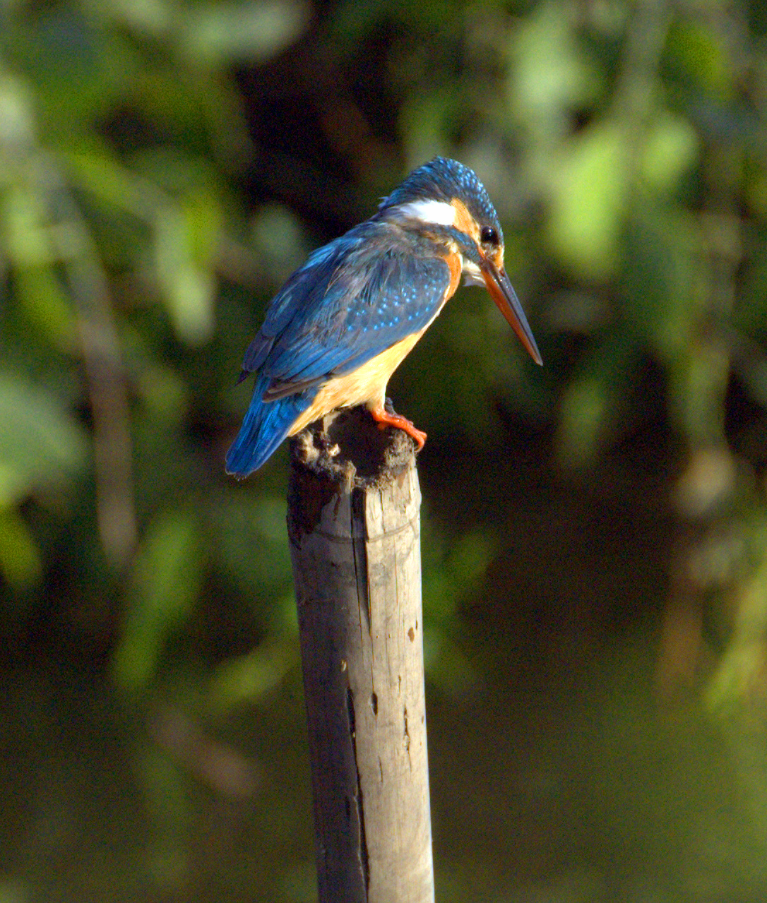 Common Kingfisher Alcedo atthis